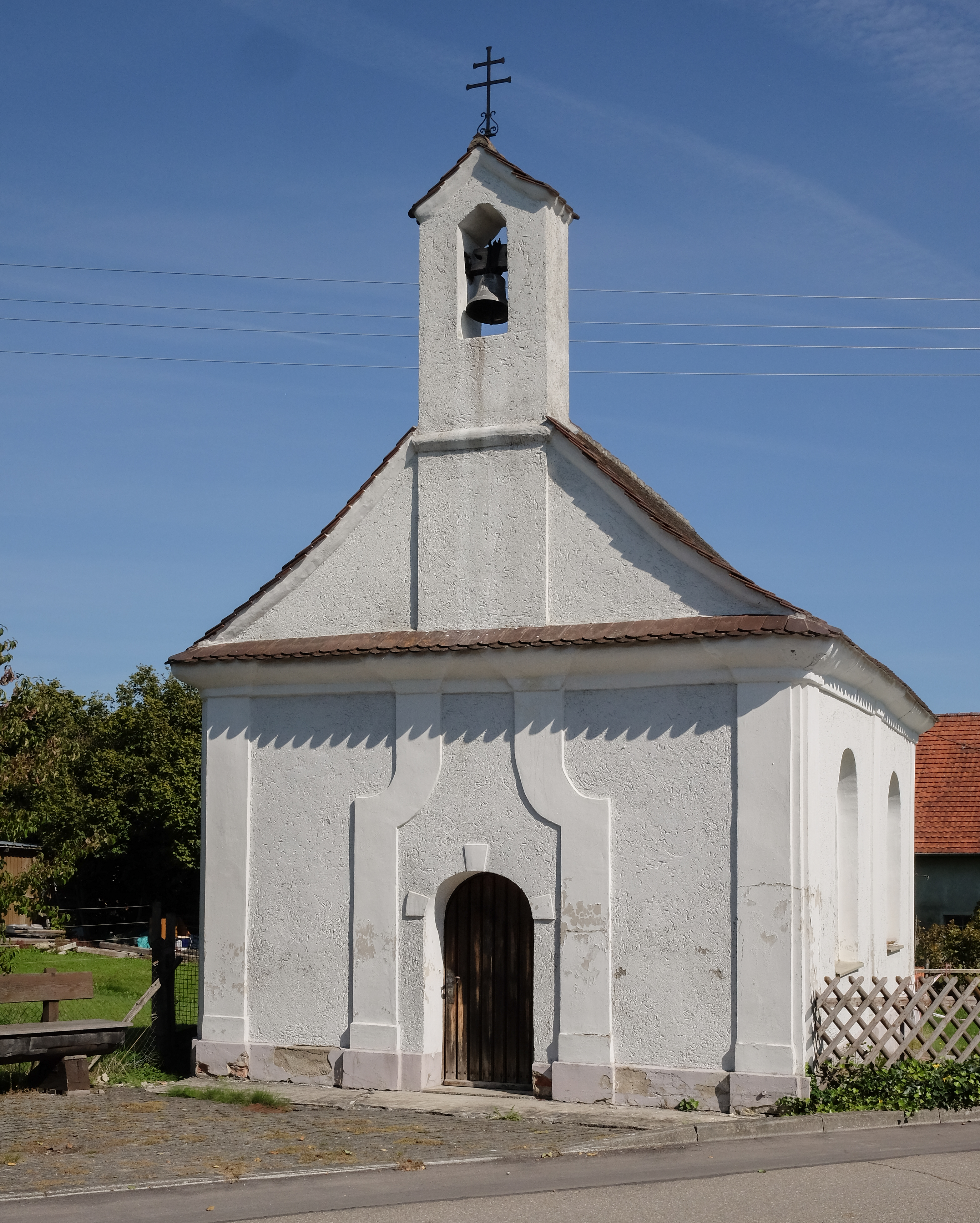 Chapel St. Anna, Bad Schussenried-Kürnbach, district Bibrach, Baden-Württemberg, Germany